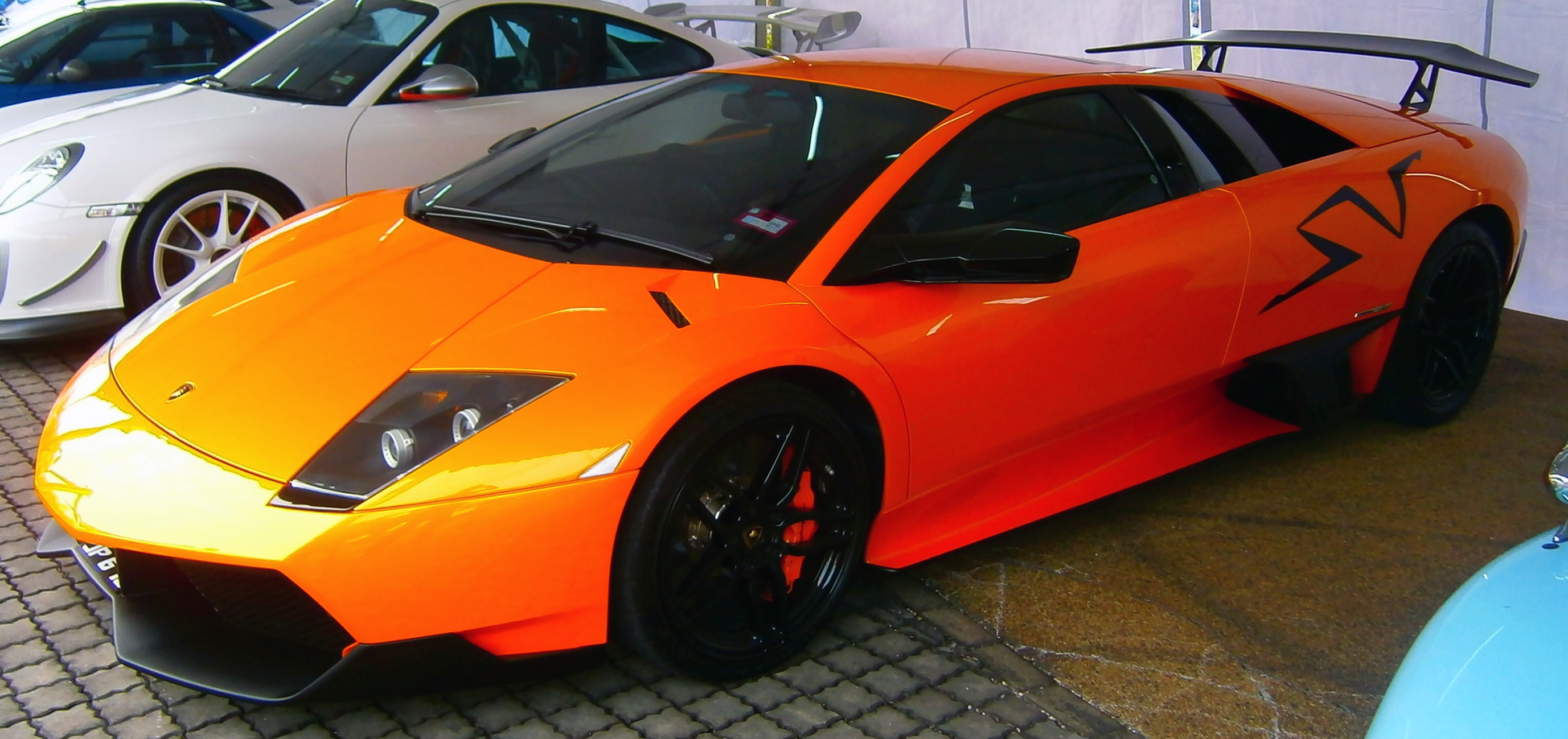 Front/Side quarter view of the Lamborghini Murciélago LP 670–4 SuperVeloce at Sepang International Circuit, Malaysia.